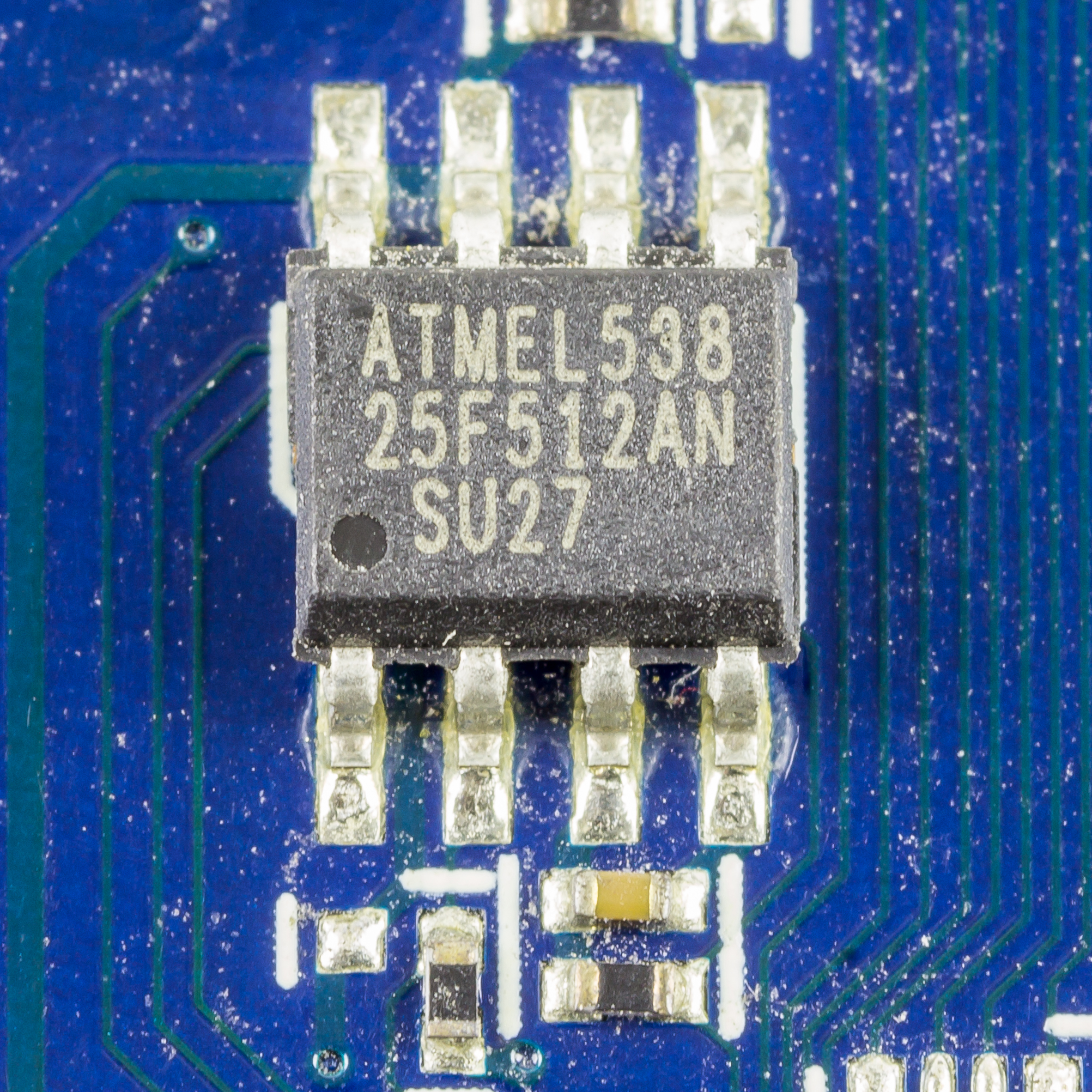 ATI Radeon X1300 256MB - Atmel 25F512AN (AT25F512) - SPI Serial Memory 512K (65,536 x 8). Package: JEDEC SOIC